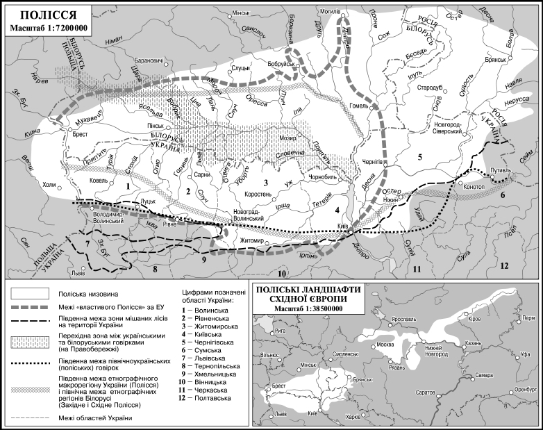 Maps of Polesia